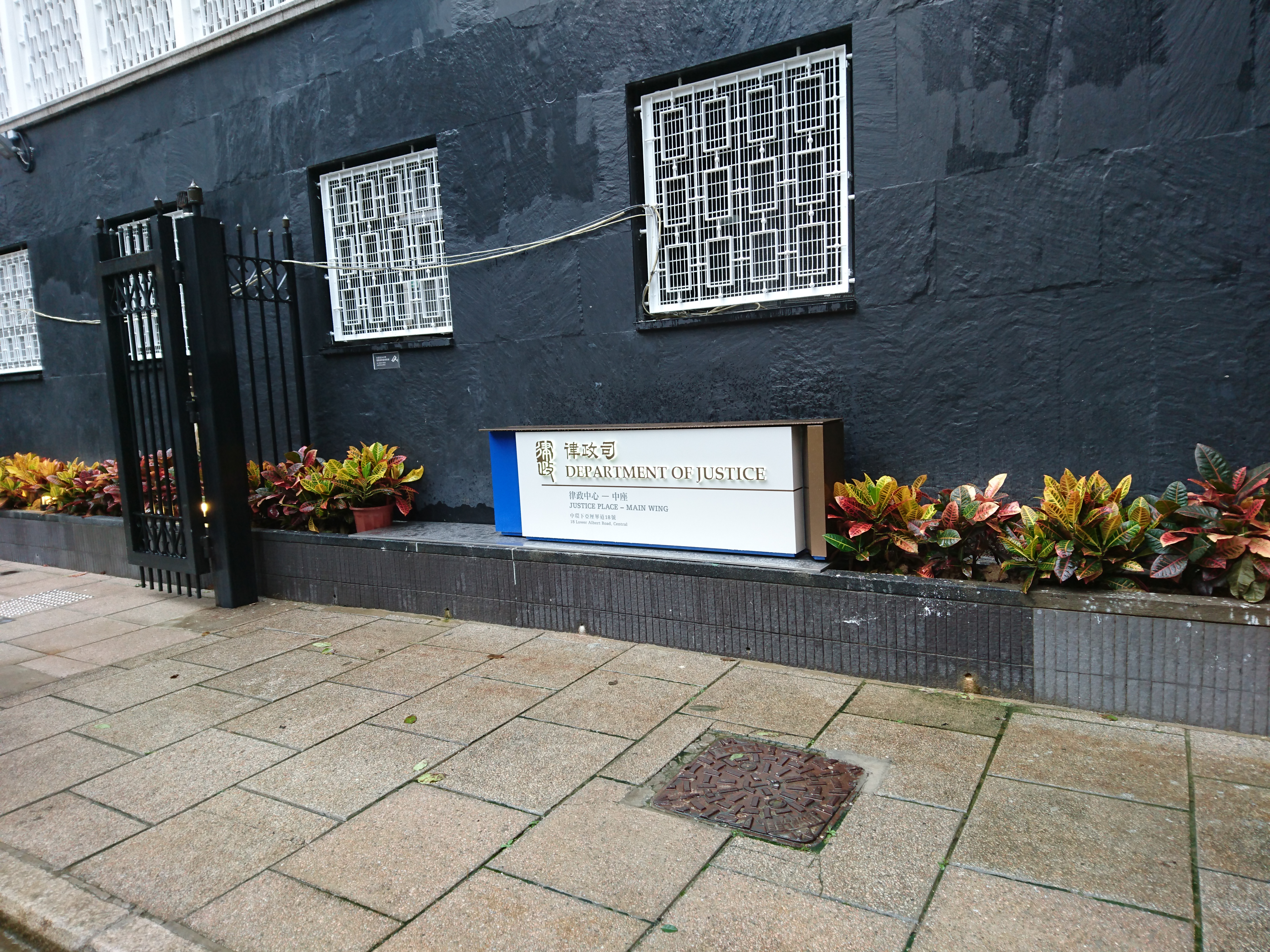 Justice Place Main Wing Sign